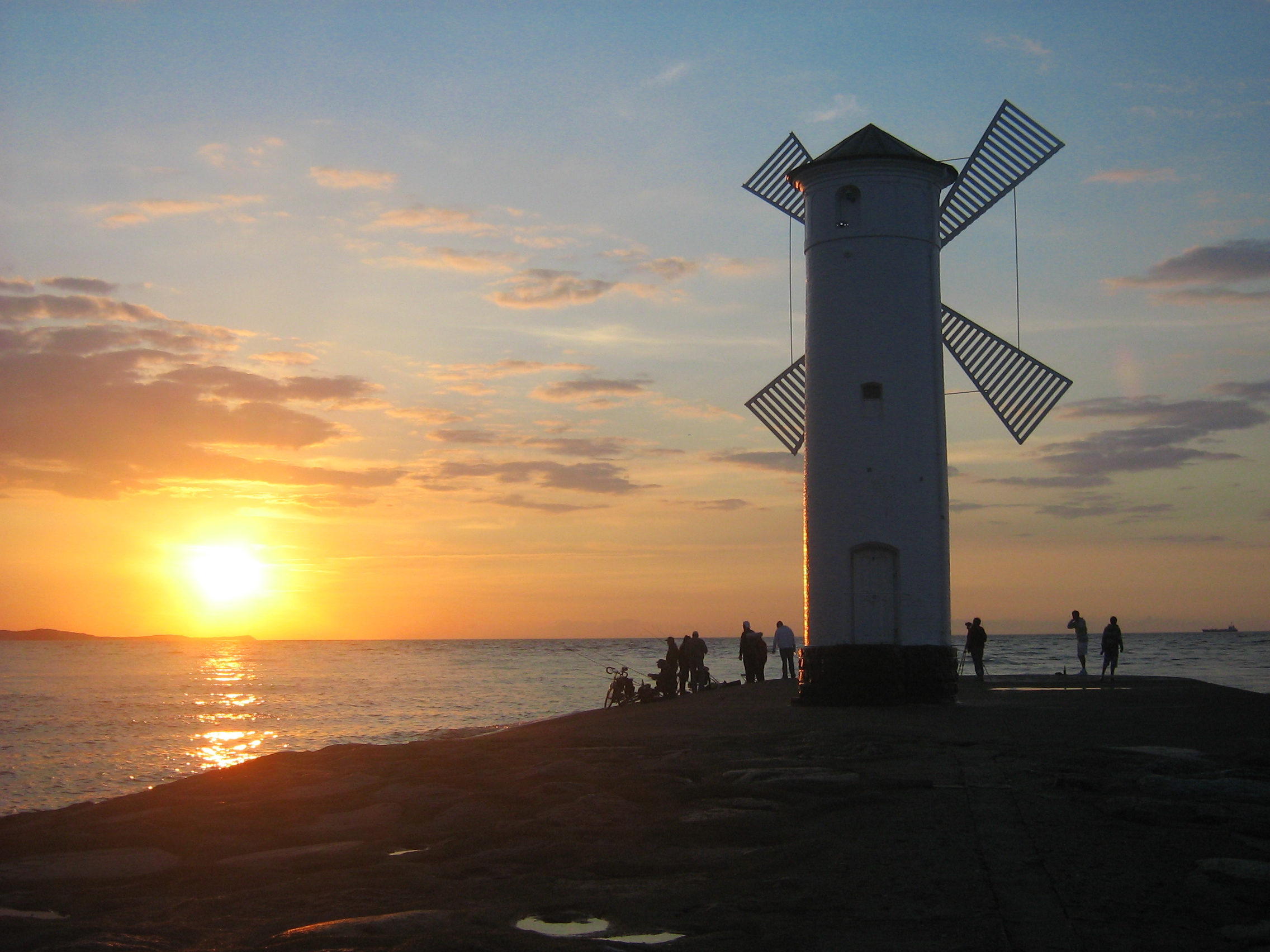 Stawa Młyny in Świnoujćie.